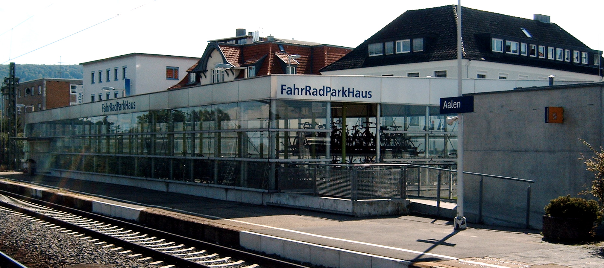 Bicycle garage at Aalen train station, Germany